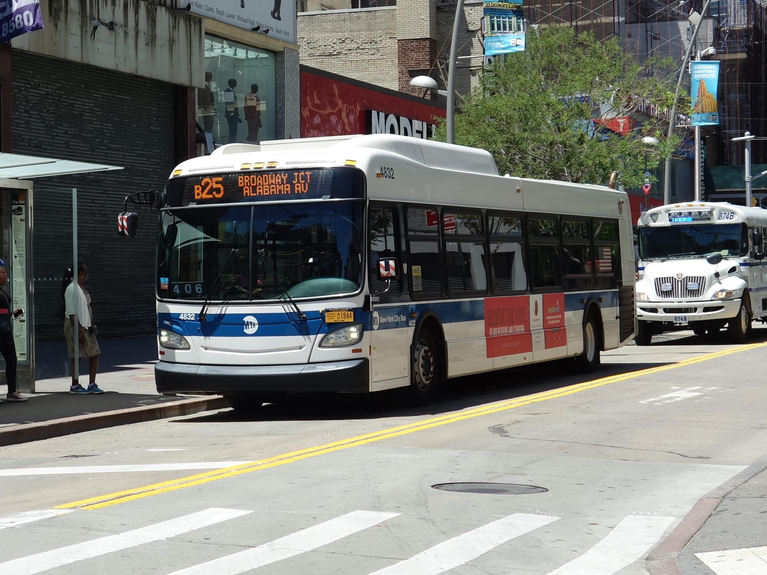 A Broadway Junction-bound B25 bus stopped at Fulton Mall and Jay Street / Smith Street in Downtown Brooklyn.